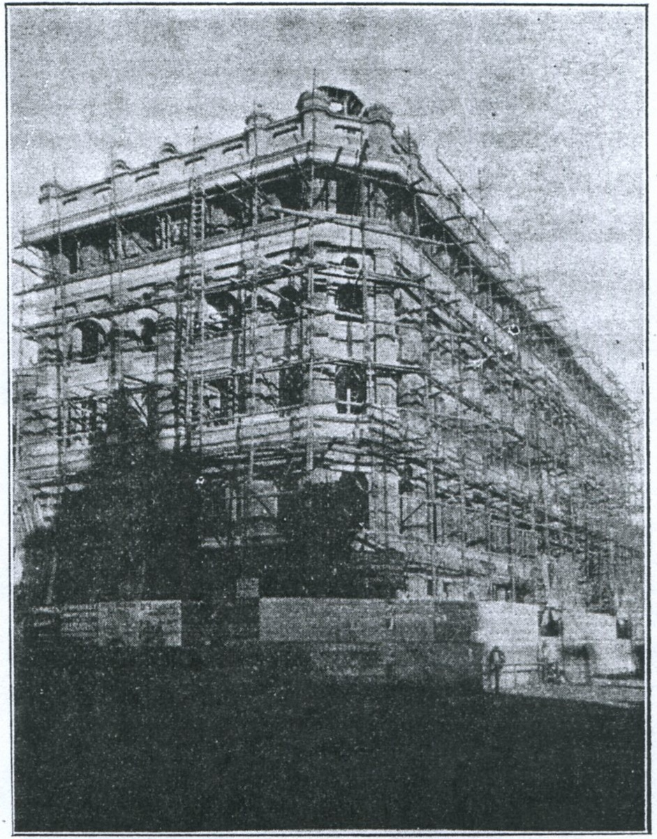 Victory House in Johannesburg while still under construction in 1897, this is part of the archived works from the Johannesburg Heritage Foundation.